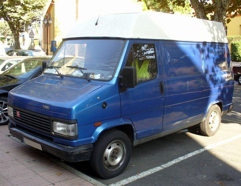 Citroën C25